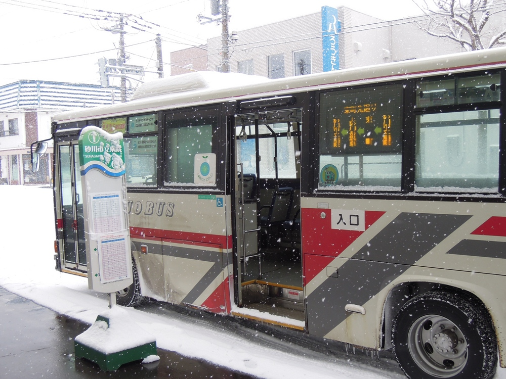 Hokkaido Chuo Bus "Sunagawa City Hospital" bus stop (Sunagawa, Hokkaido)